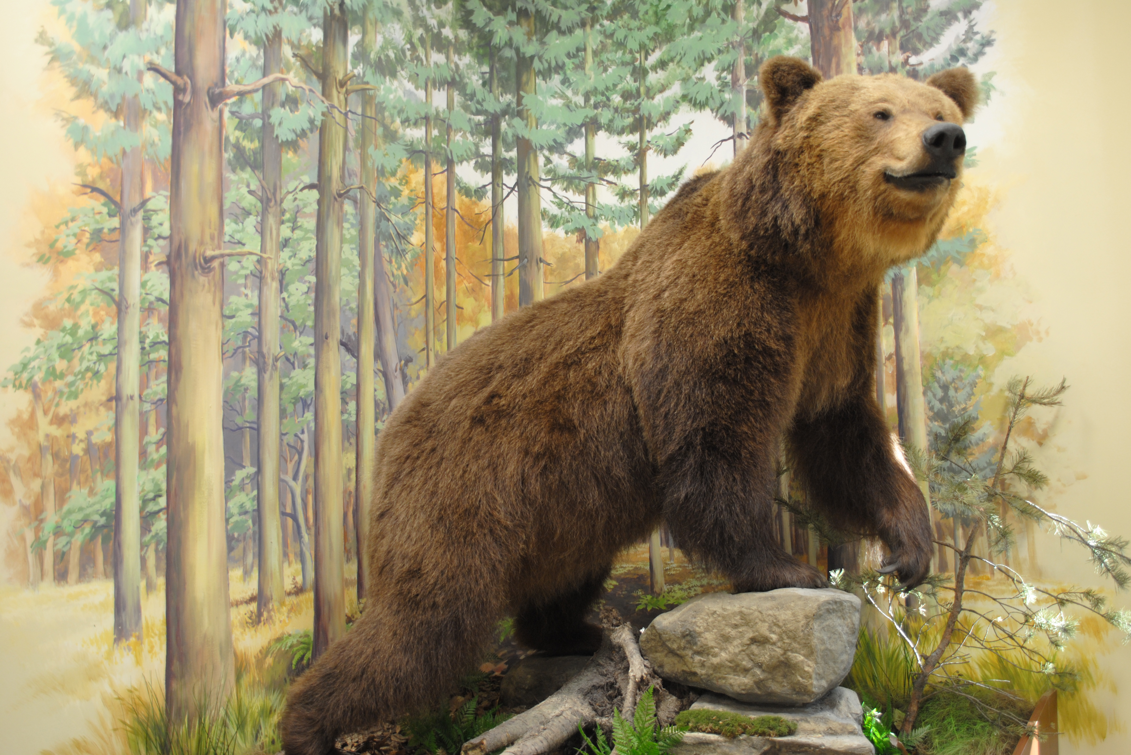 Brown Bear